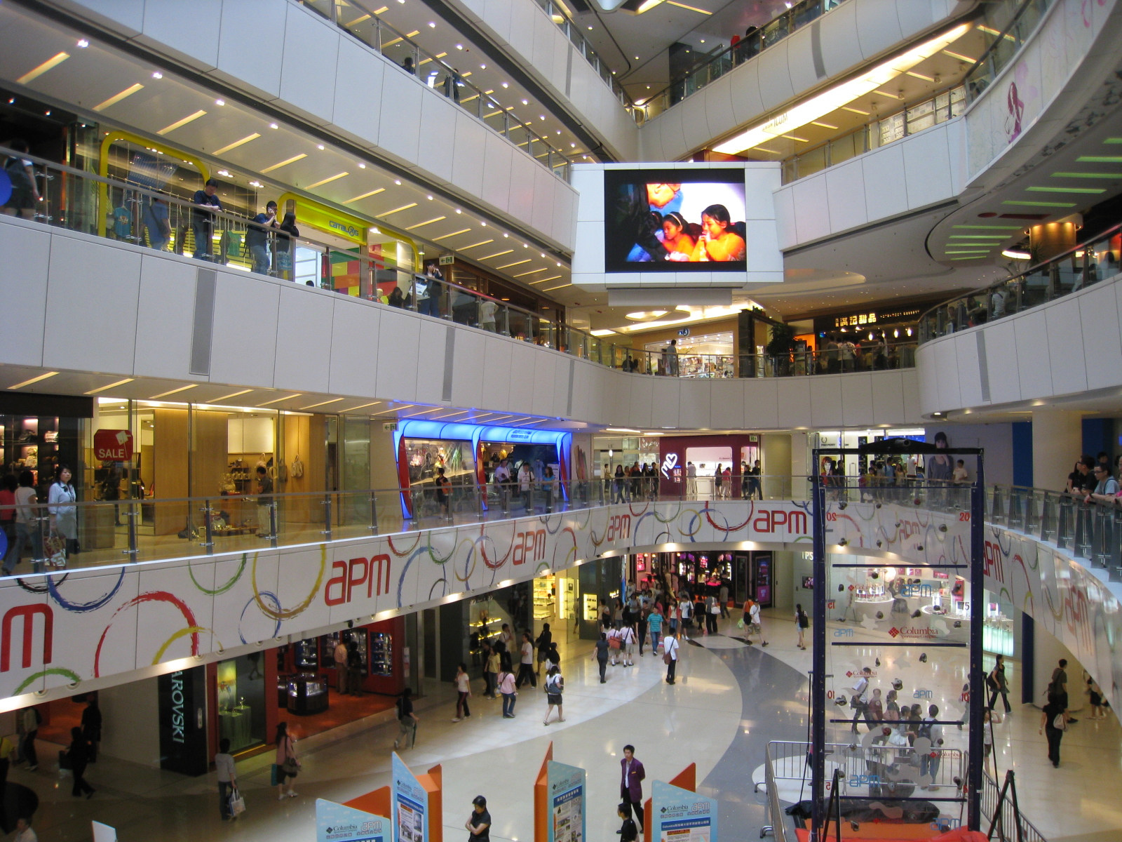 HK apm Void in 2008